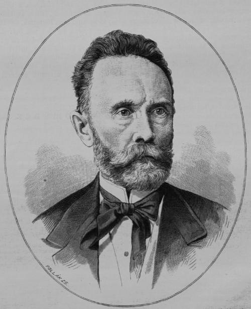 Portrait of Gusztáv Lauka